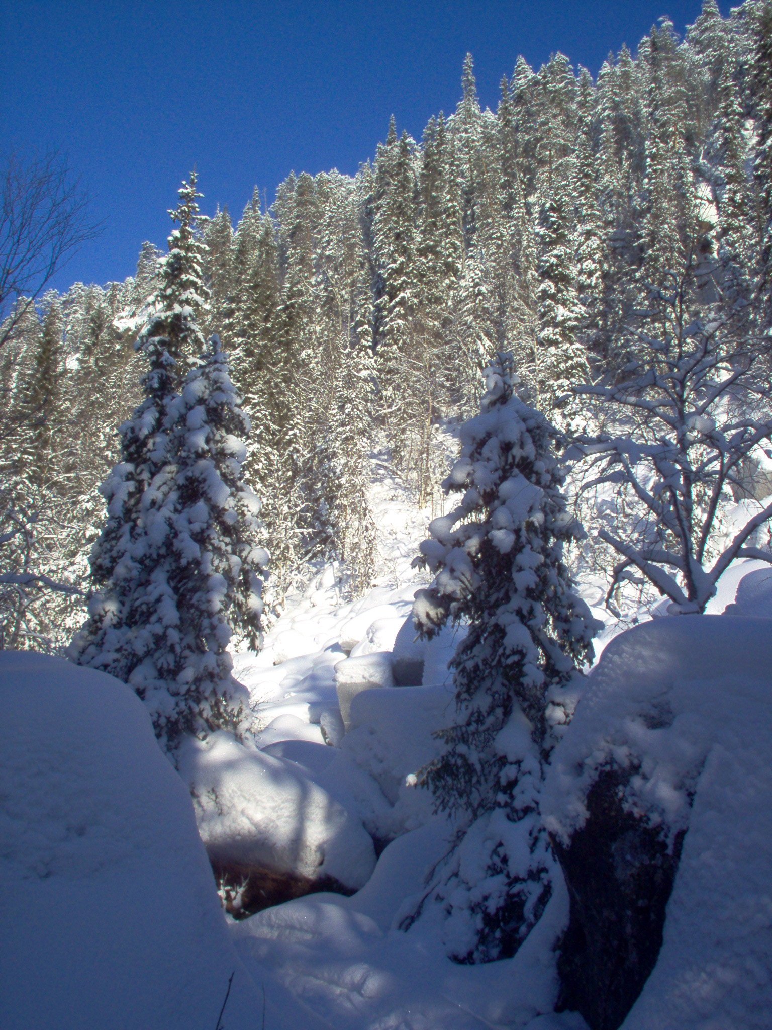 Korouoma in Posio, Finland.